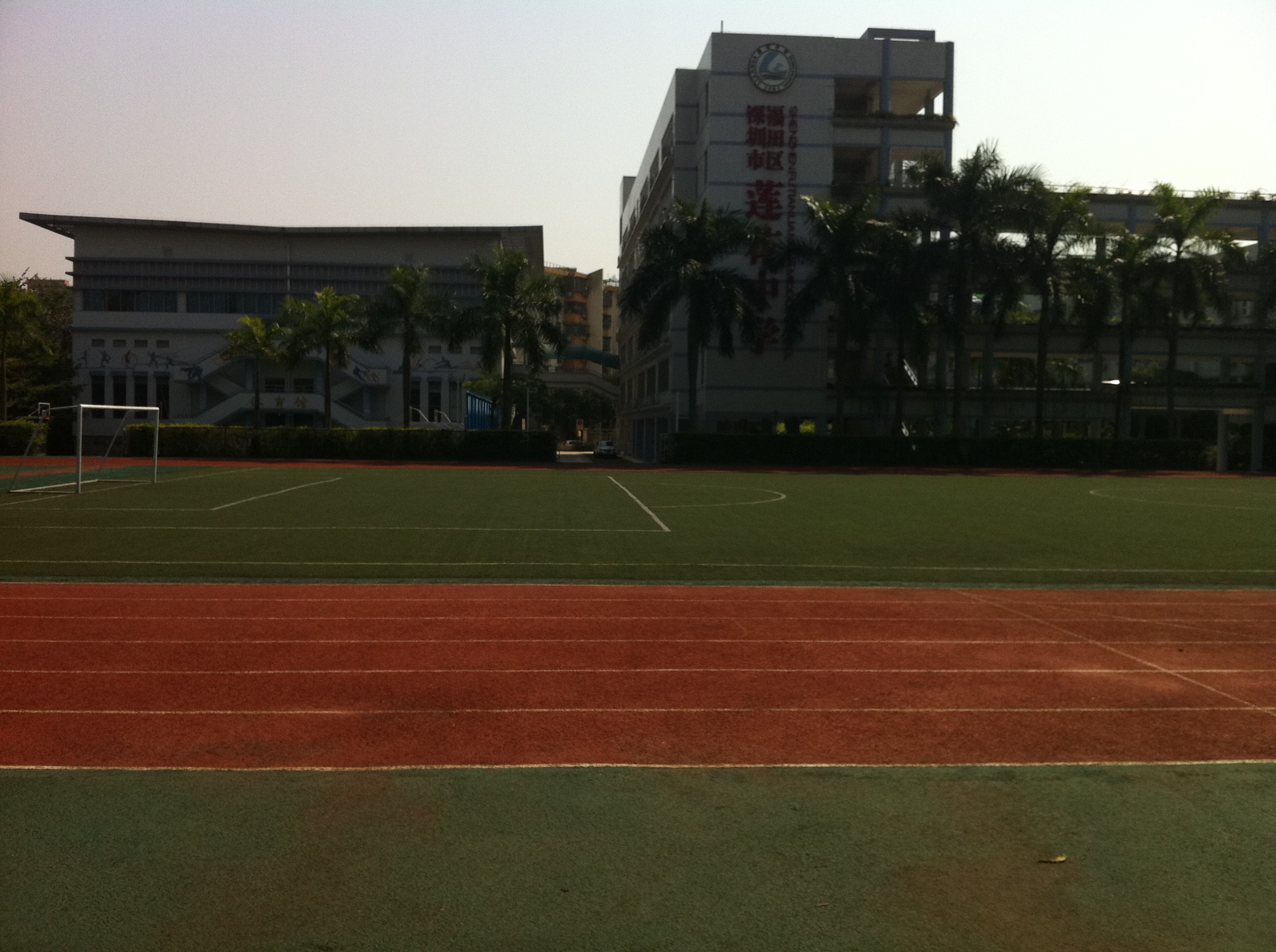 200 meter race filed in Lianhua Middle School, Futian District, Shenzhen中文（中国大陆）: 深圳市莲花中学200米塑胶跑道